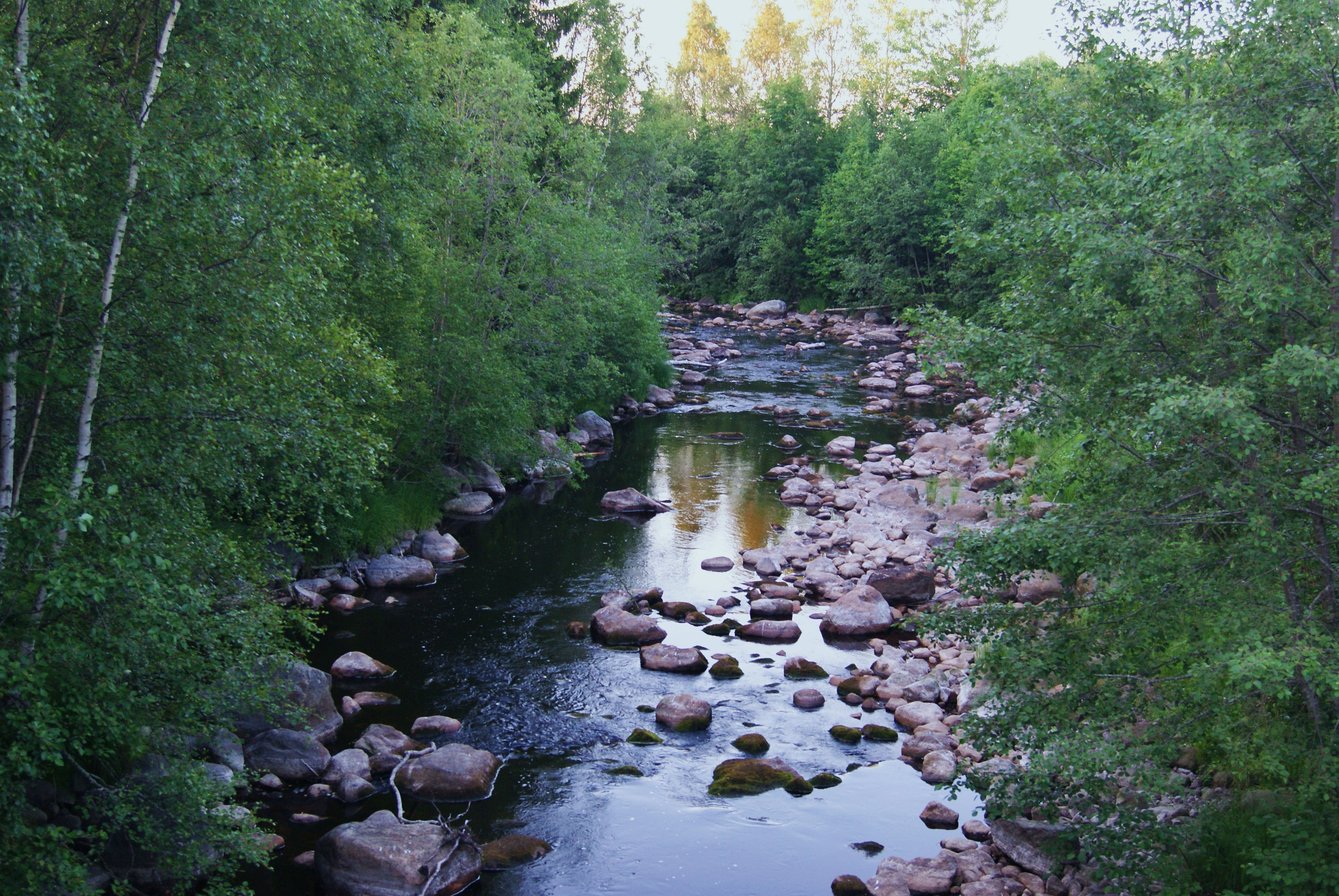 Dalkarlsån. The photo is taken by the river where it passes the village Dalkarlså